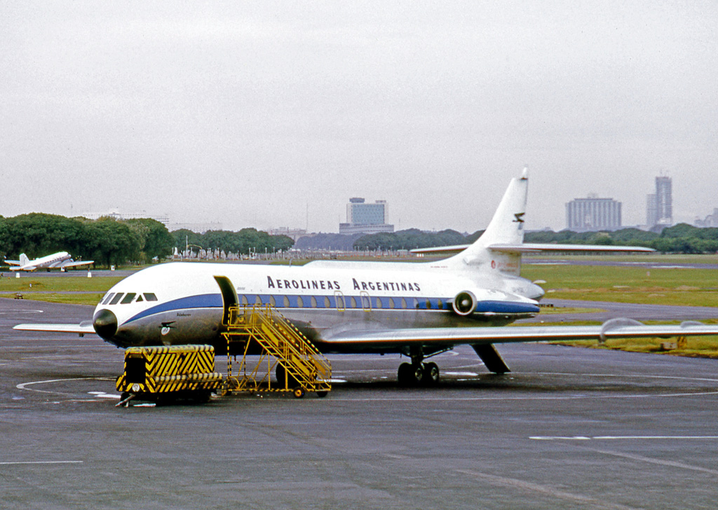 Sud SE-210 Caravelle VIN LV-HGX of Aerolineas Argentinas at Buenos Aires AEP in 1972